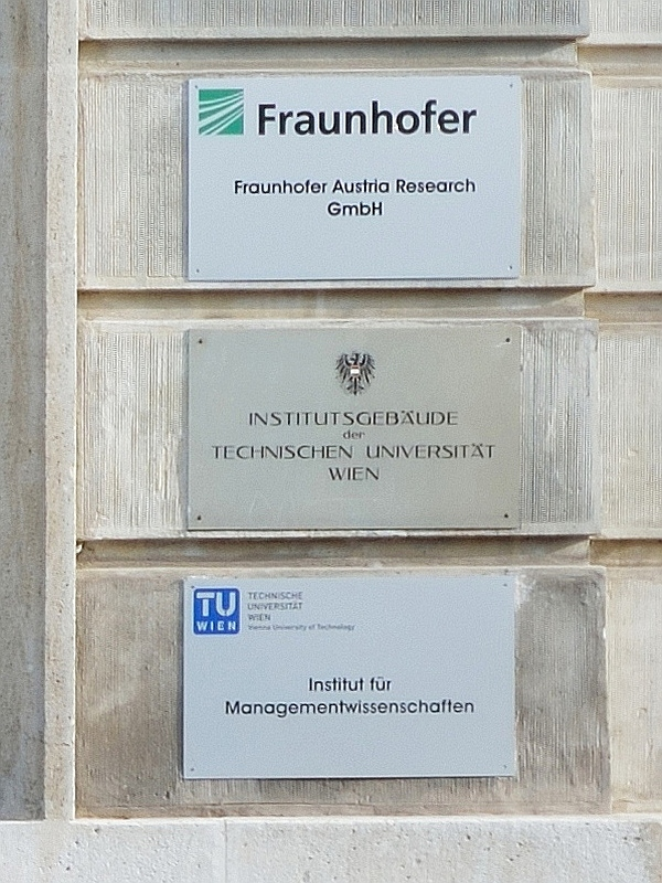 Palace Böhler, door signs, Theresianumgasse 27, 4th district of Vienna